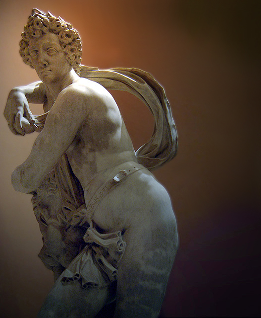 David. Marble, date unknown.